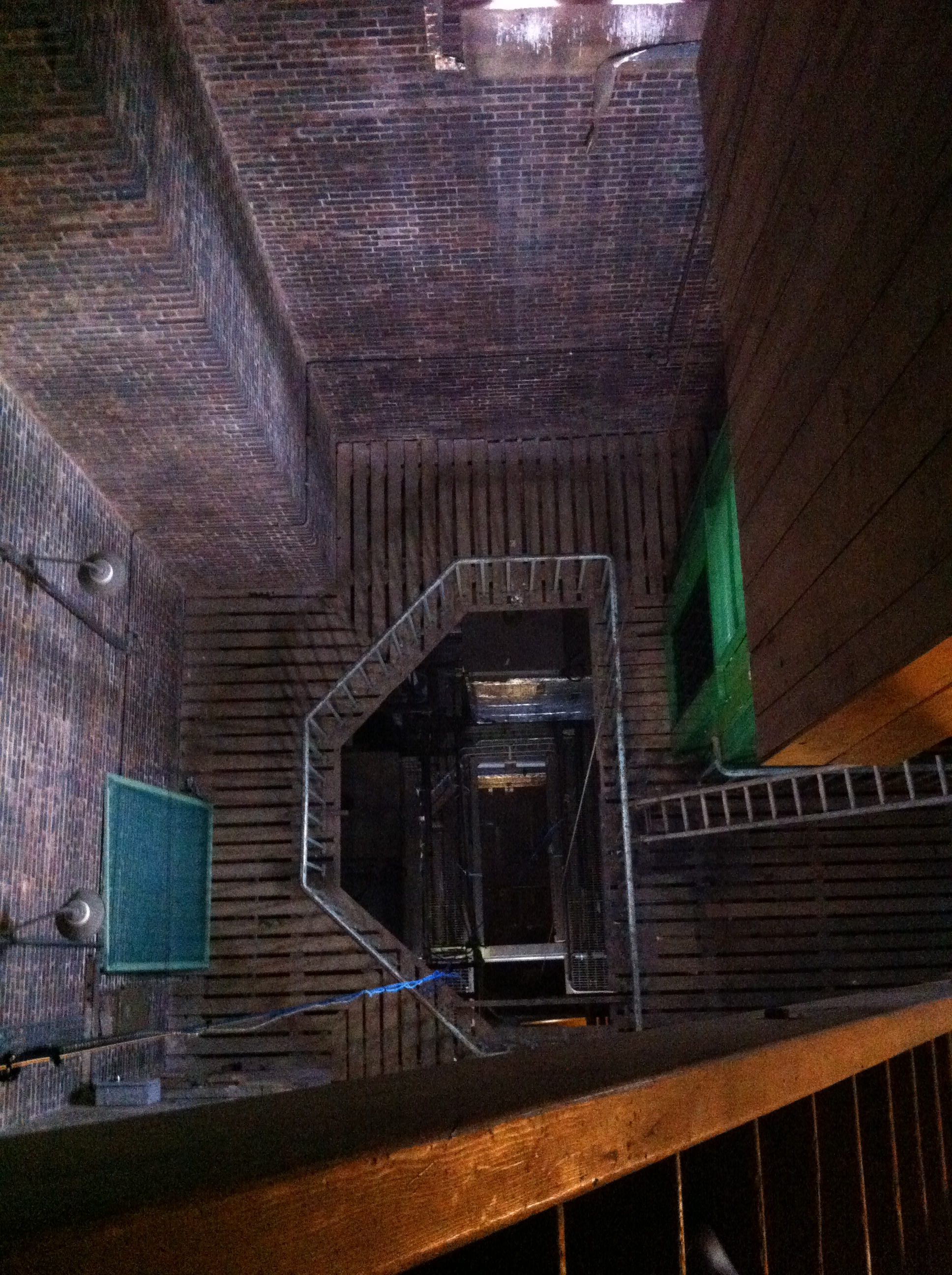 A view from the 8th floor looking down the inside of the Clock Tower at University of Birmingham. The view to the first floor blocked only by the water tanks located at the 5th/6th floor levels.